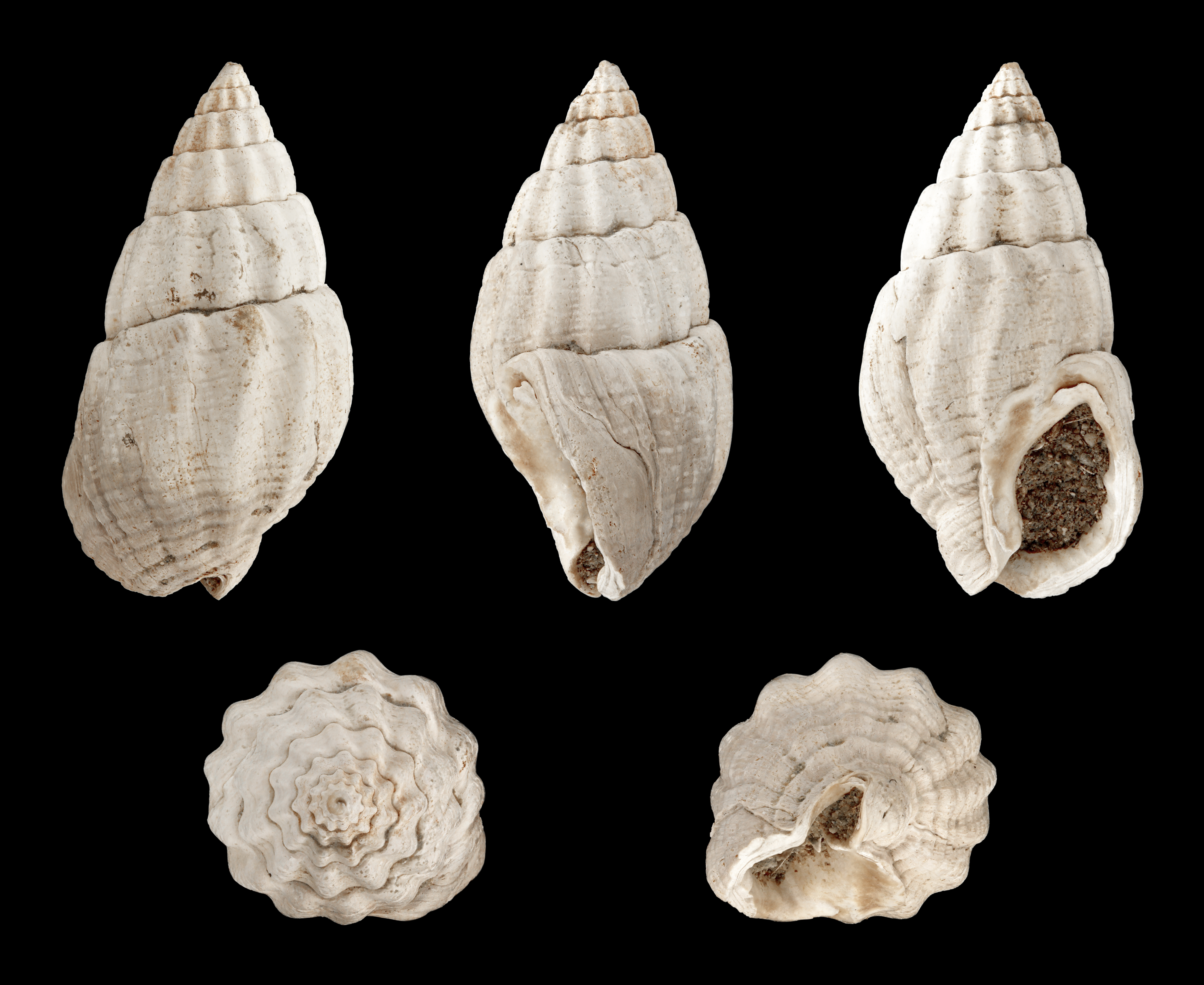 Tritia reticulata (Linné, 1758), Netted Dog Whelk; Length 2.3 cm; Pliocene; Orvieto, Italy; Shell of own collection, therefore not geocoded. Dorsal, lateral (right side), ventral, back, and front view.